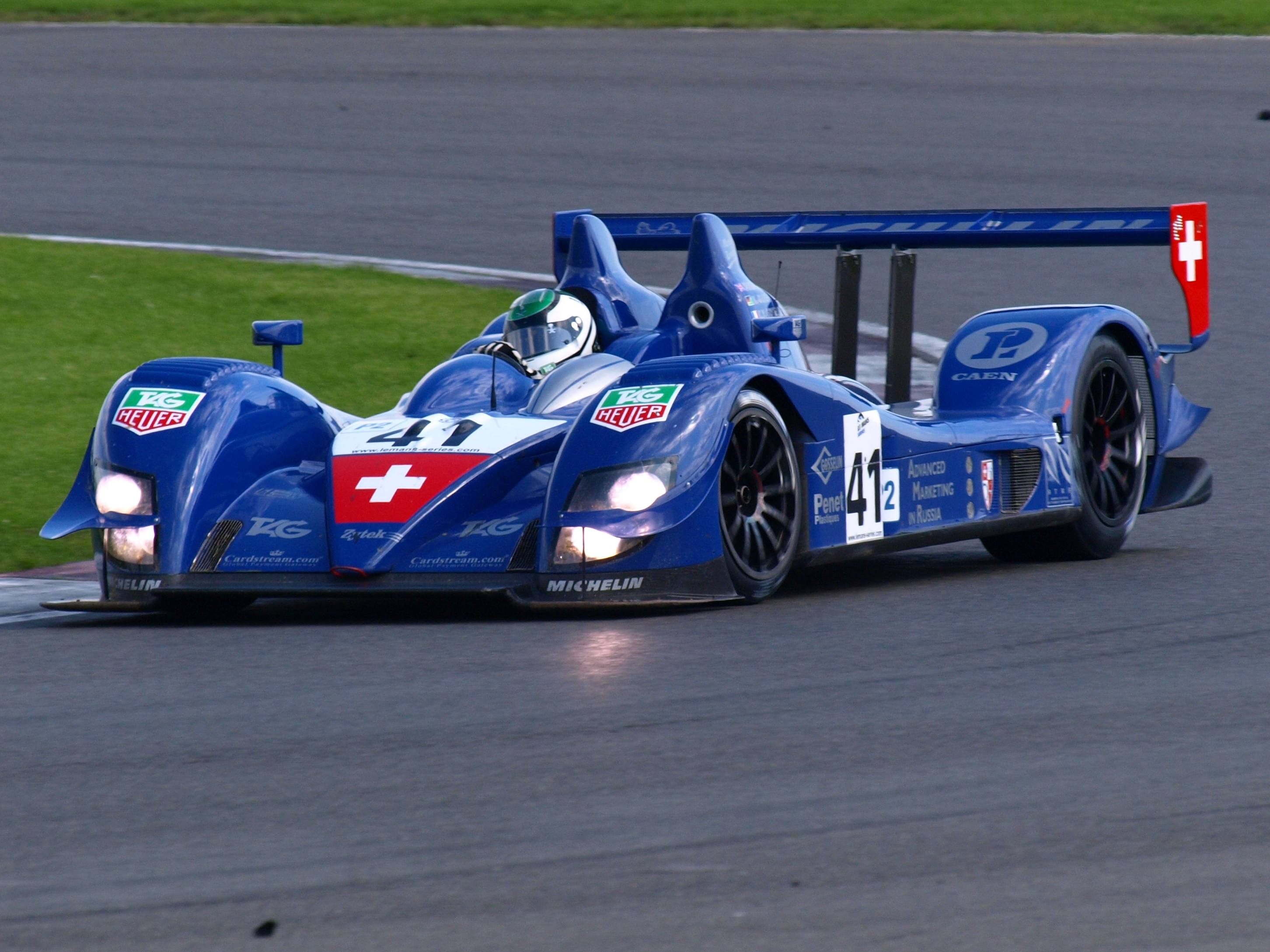 Trading Performance's Zytek 07S at the 2008 1000km of Silverstone